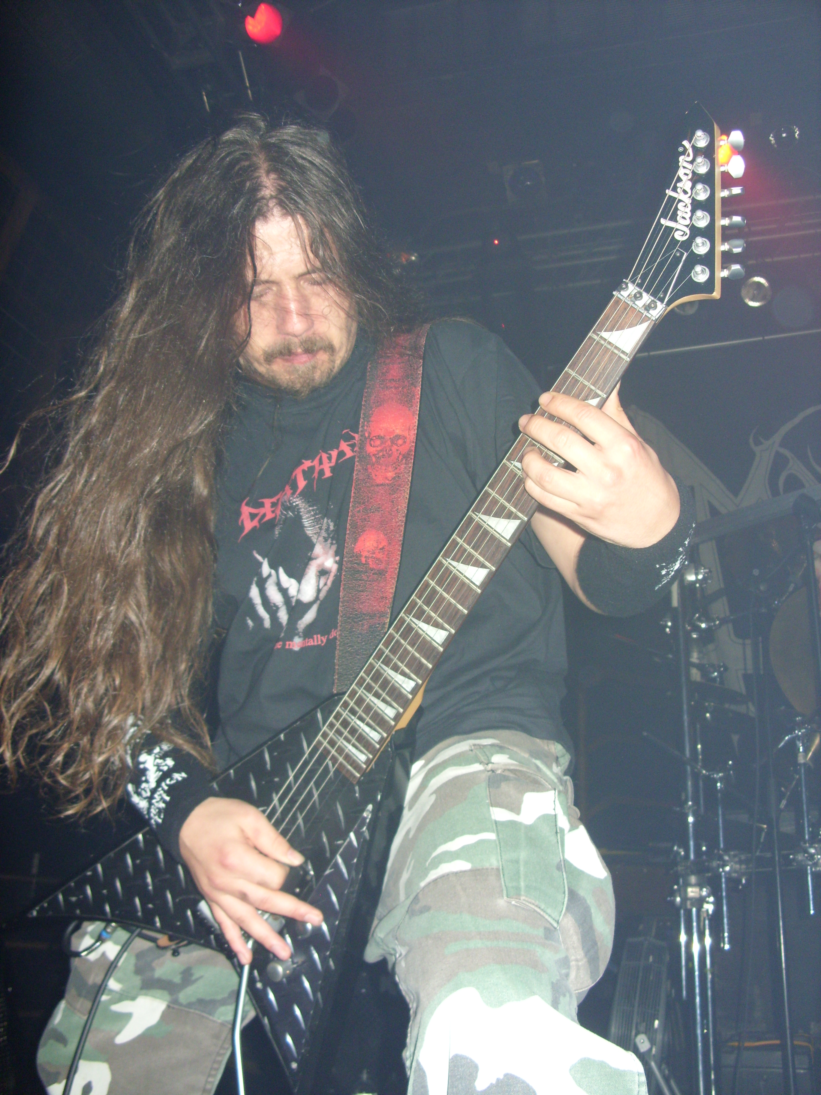 Mayhem guitarist Morfeus performing live.